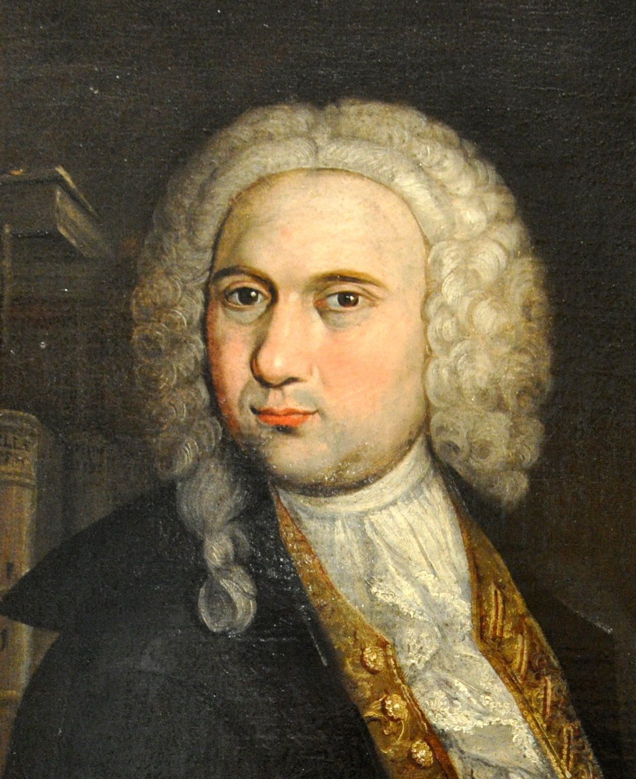 Leopold Innocent Nepomuk Polzer (1698-1753), mayor of Teschen (Cieszyn). Cut from an oil painting by an unknown artist, 2nd quarter of the 18th century.